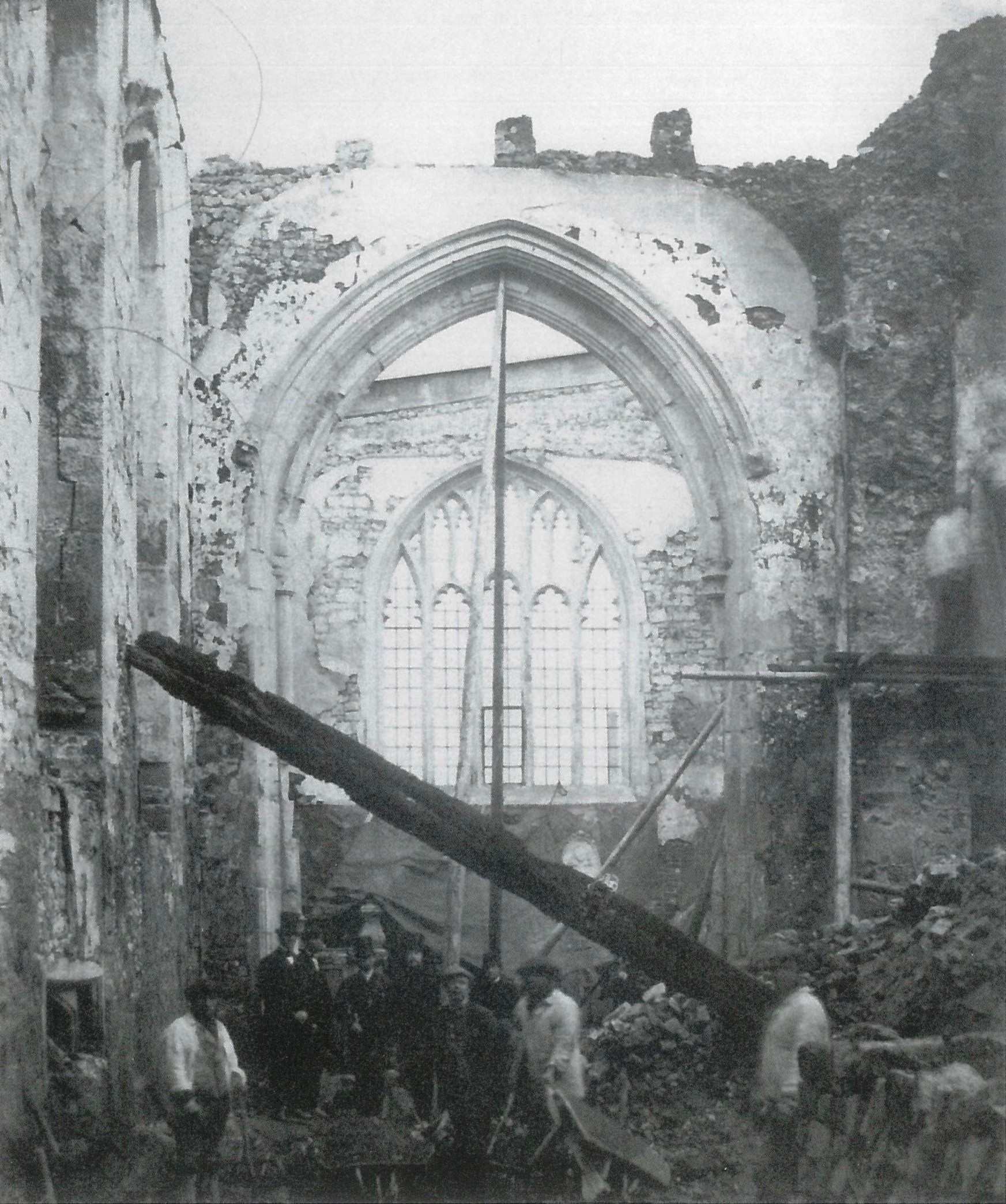 View of interior of ruins of Croydon parish church, north chancel aisle looking east, following destruction by fire, 5 January 1867